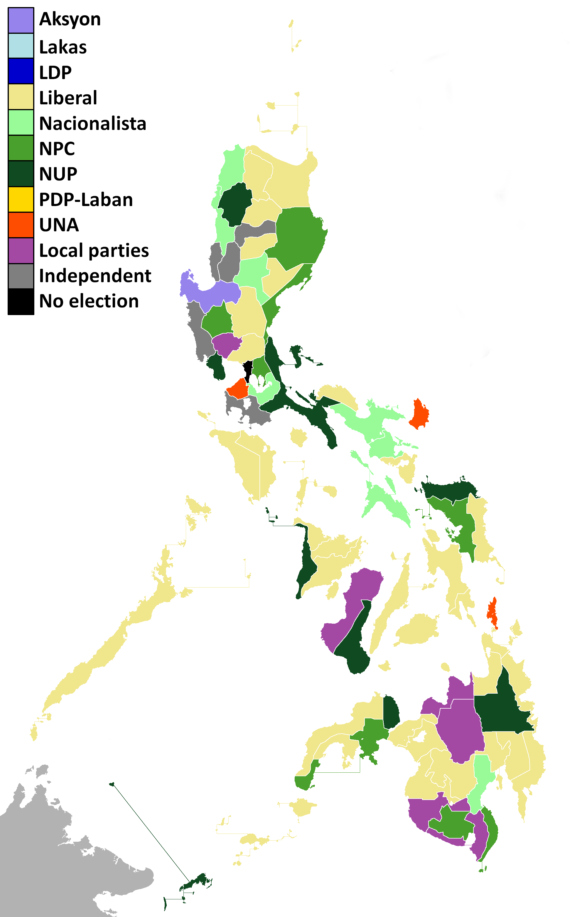 Results of 2016 Philippine gubernatorial elections based on Certificates of Canvass.